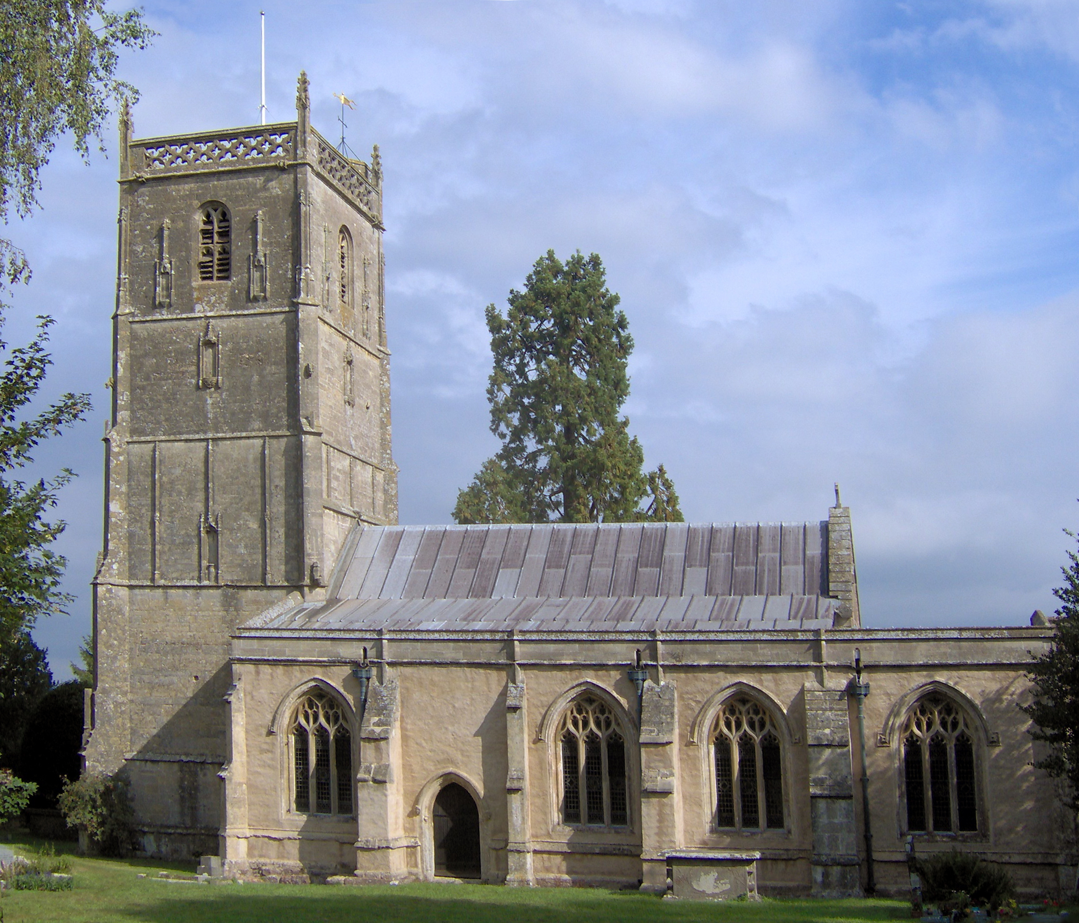 Compton Martin Church. Taken by Rod Ward 15th August 2006